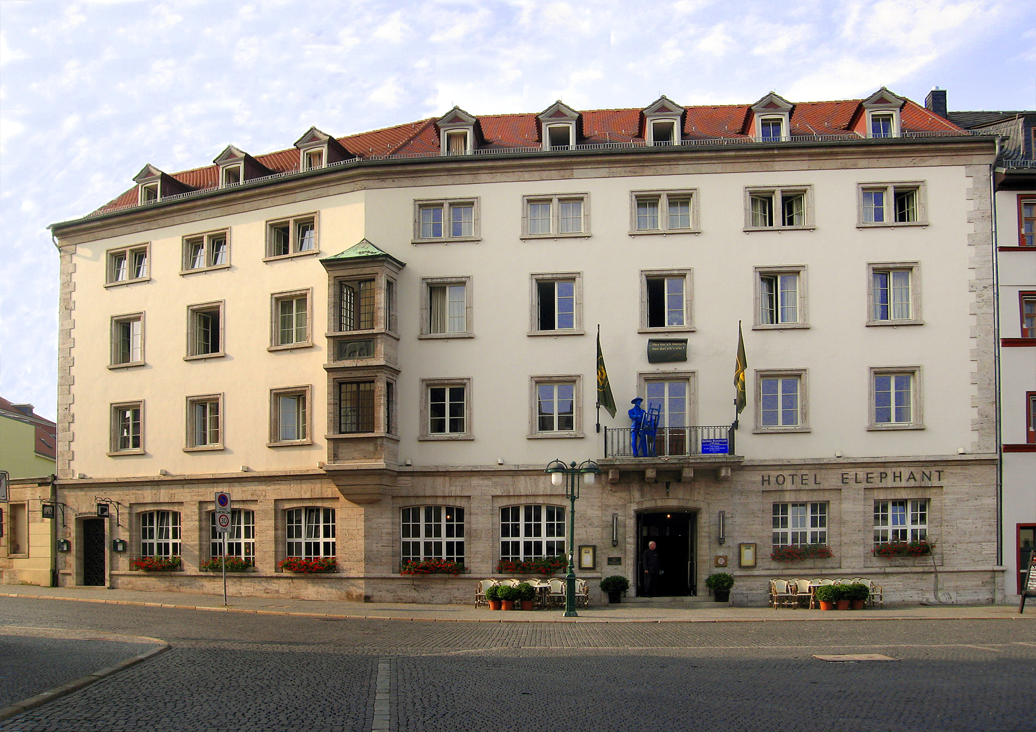 The Hotel Elephant in Weimar